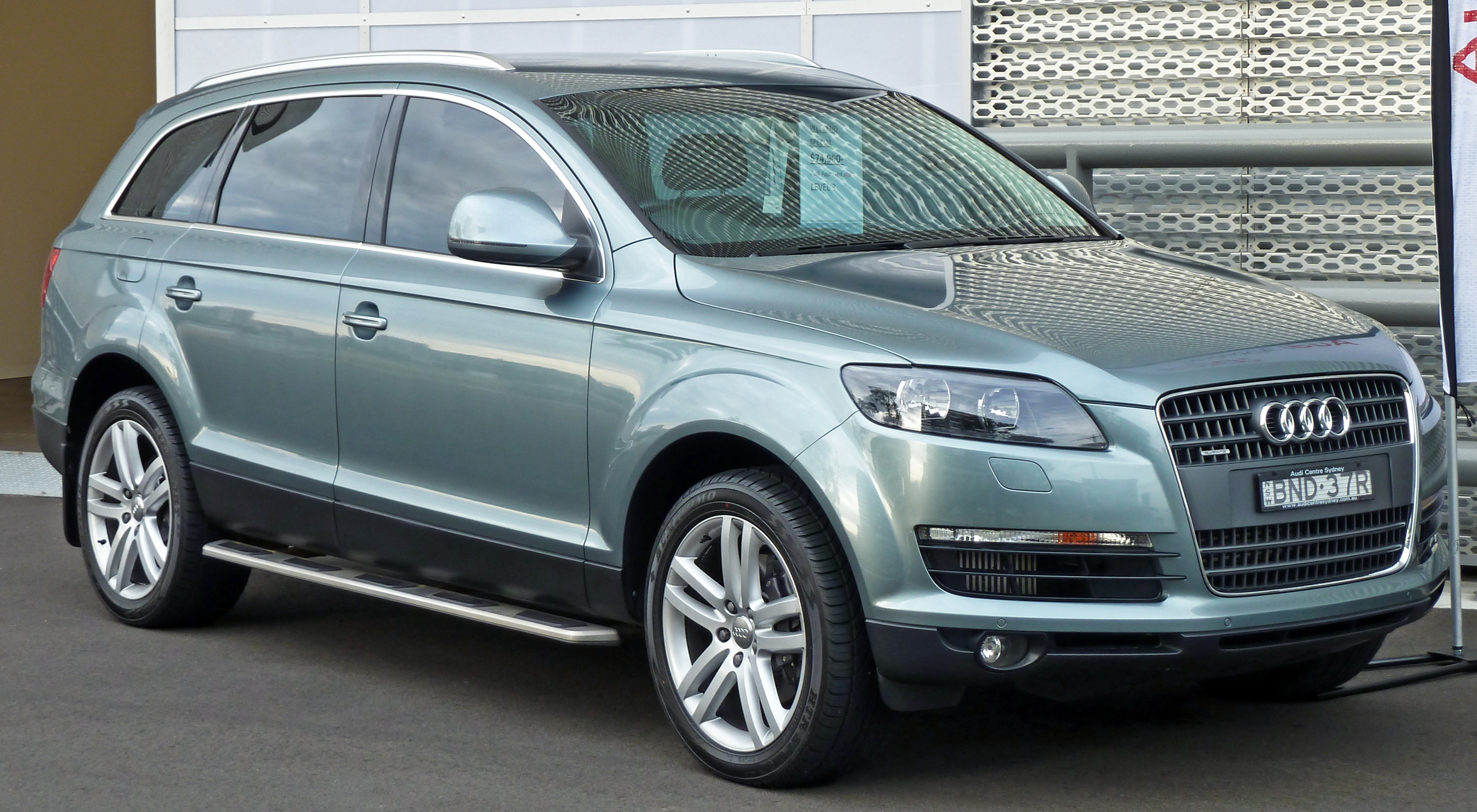 2007 Audi Q7 3.0 TDI quattro. Photographed at the Audi Centre Sydney, Zetland, New South Wales, Australia.